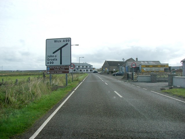 The A836, approaching the junction with the A99, John O'Groats